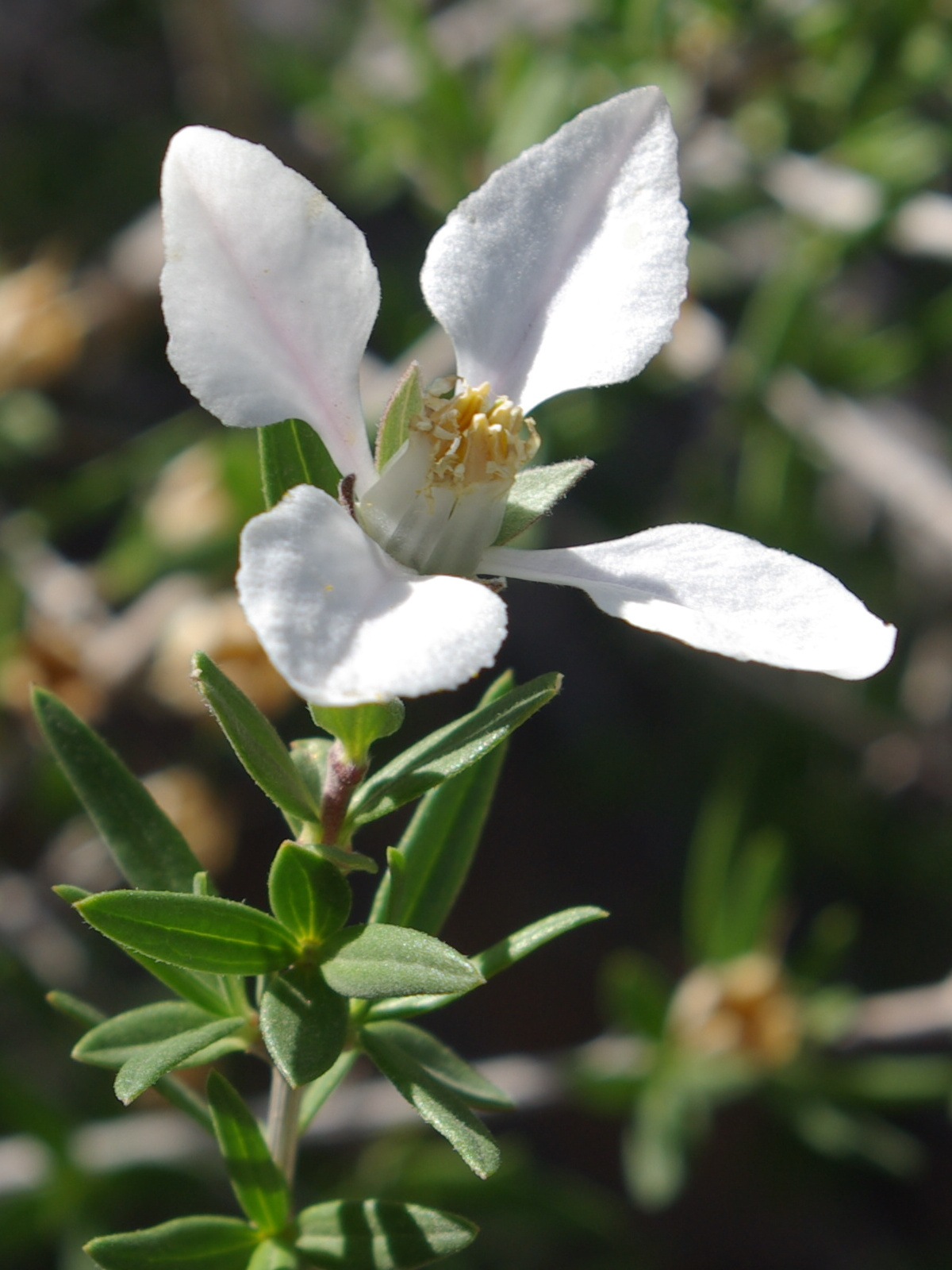 Detail of Cliff Fendlerbush, Fendlera rupicola var. rupicola, near Santa Cruz Reservoir, New Mexico.